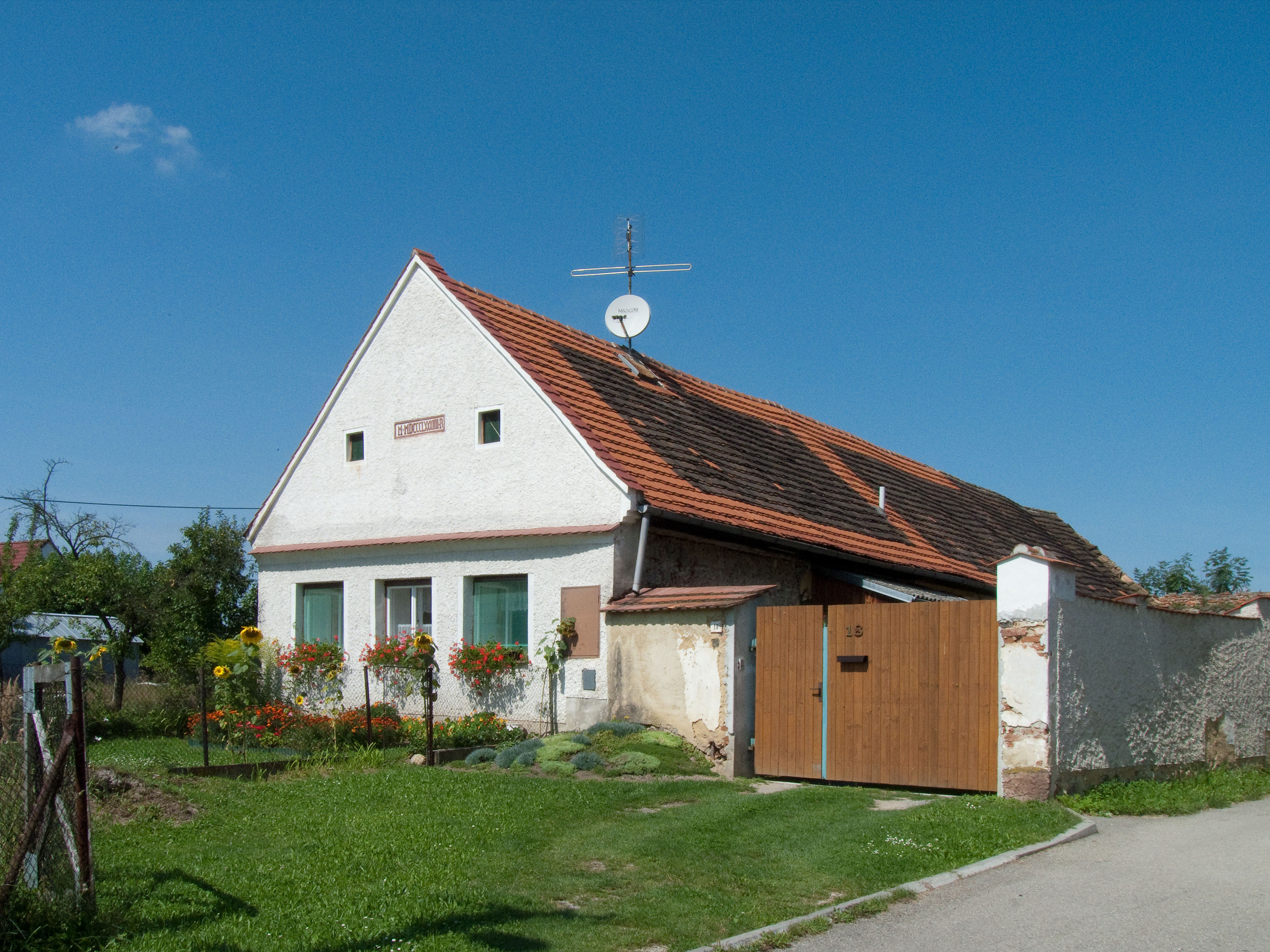 Cottage No 18 in Dehtáře, České Budějovice district, Czech Republic